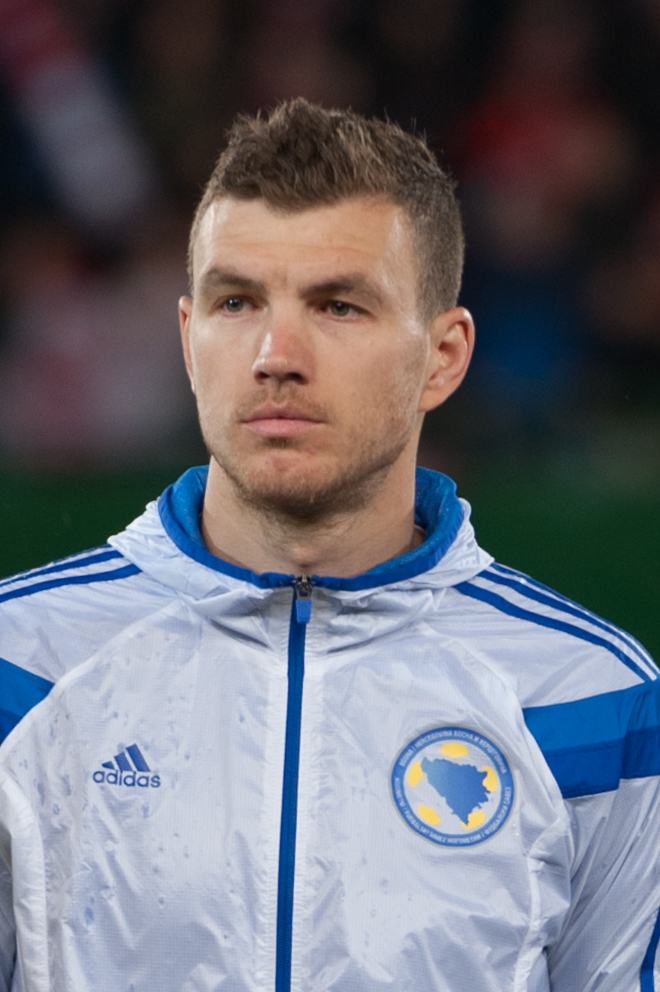 International friendly Austria vs. Bosnia and Herzegovina, 2015-03-31, Vienna